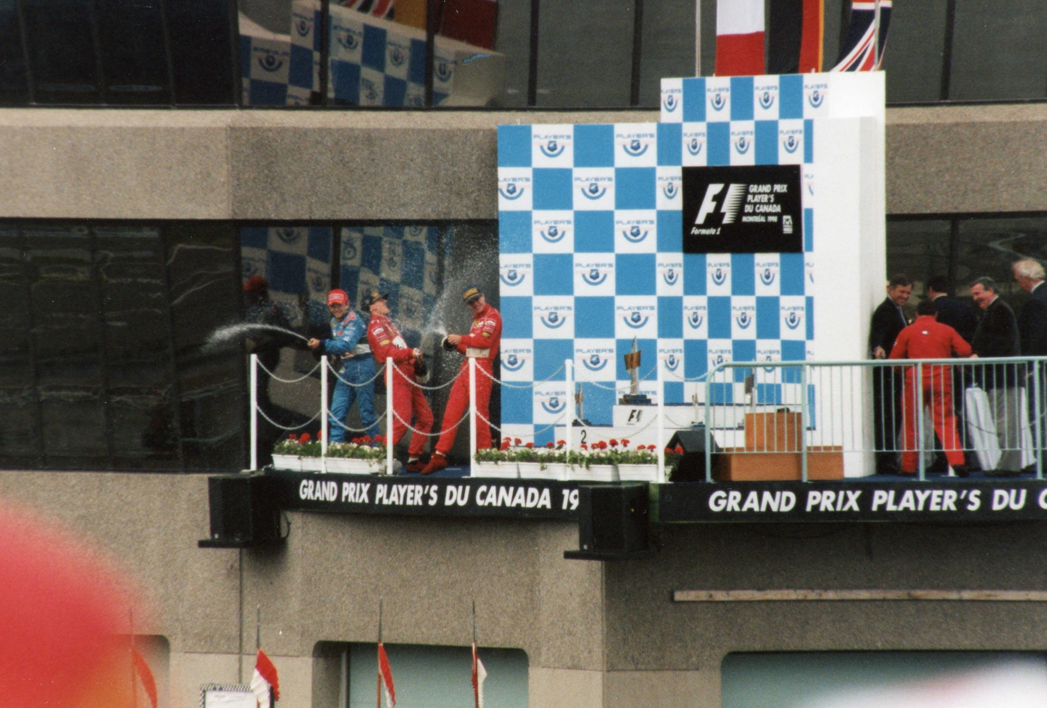 Canadian Grand Prix, 1998